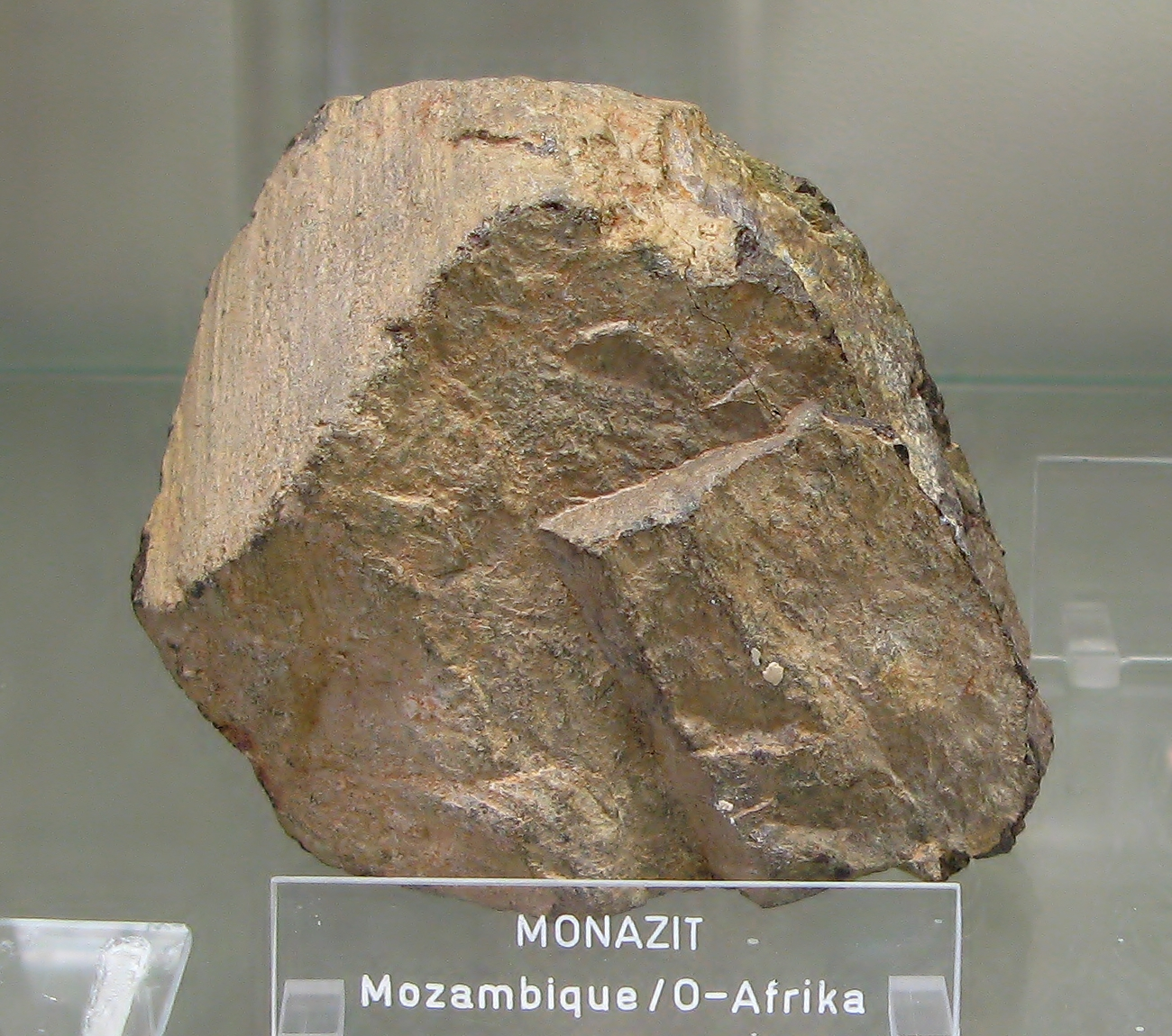 Monazite - Locality: Mozambique, East-Africa - Exposed in the Mineralogical Museum, Bonn, Germany